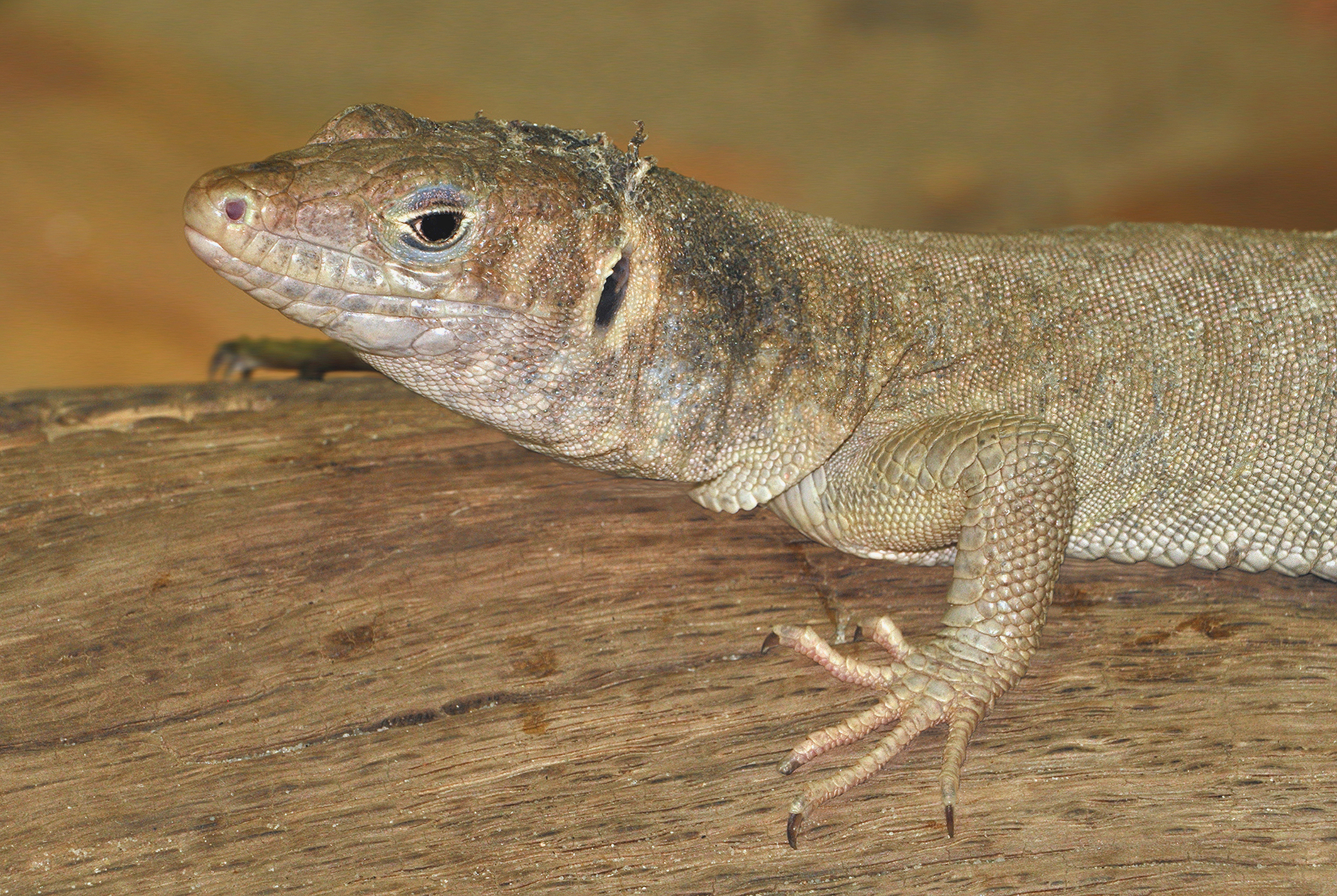 Spiny-tailed monitor (Varanus acanthurus) in Hanover Zoo.